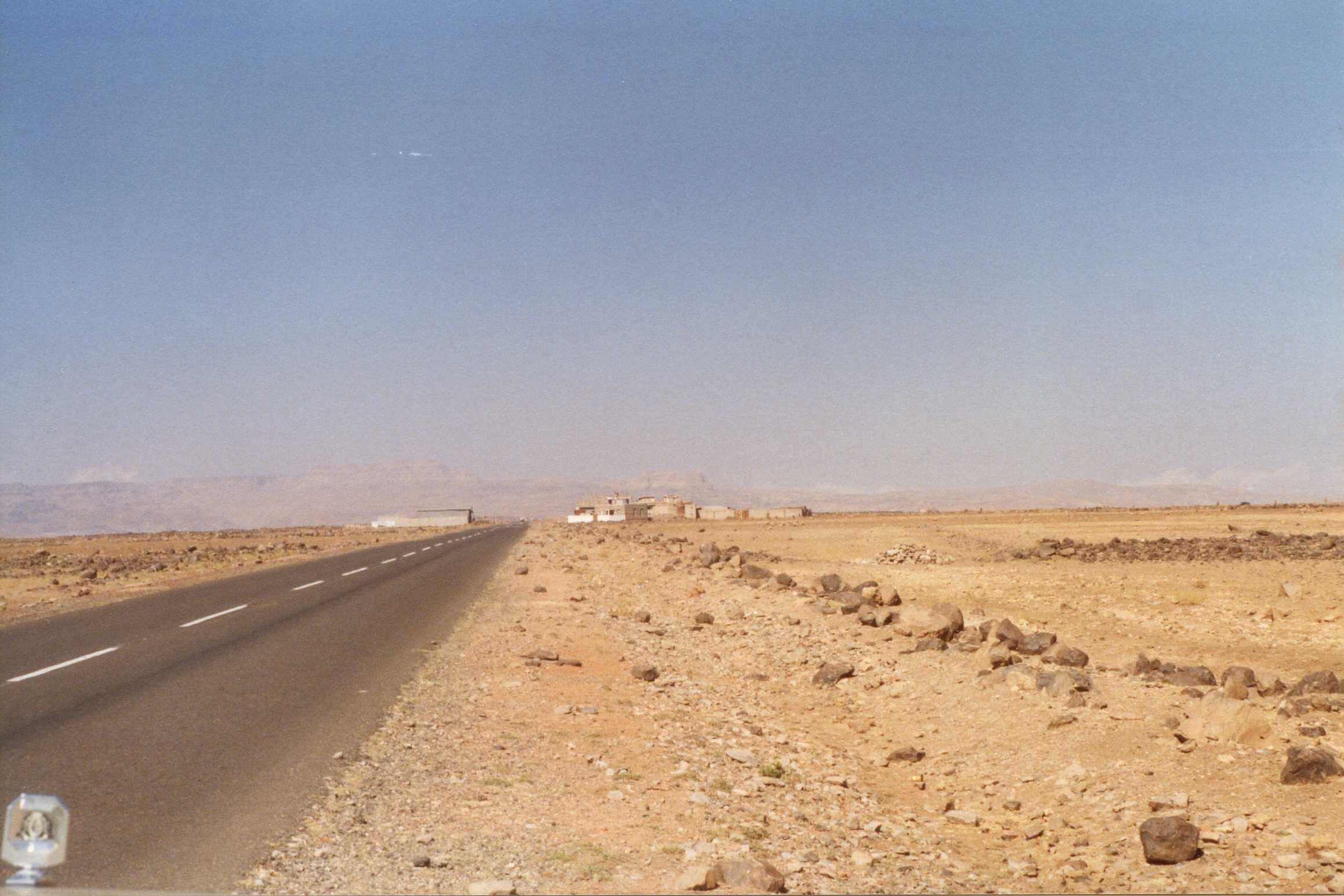 The road upcountry